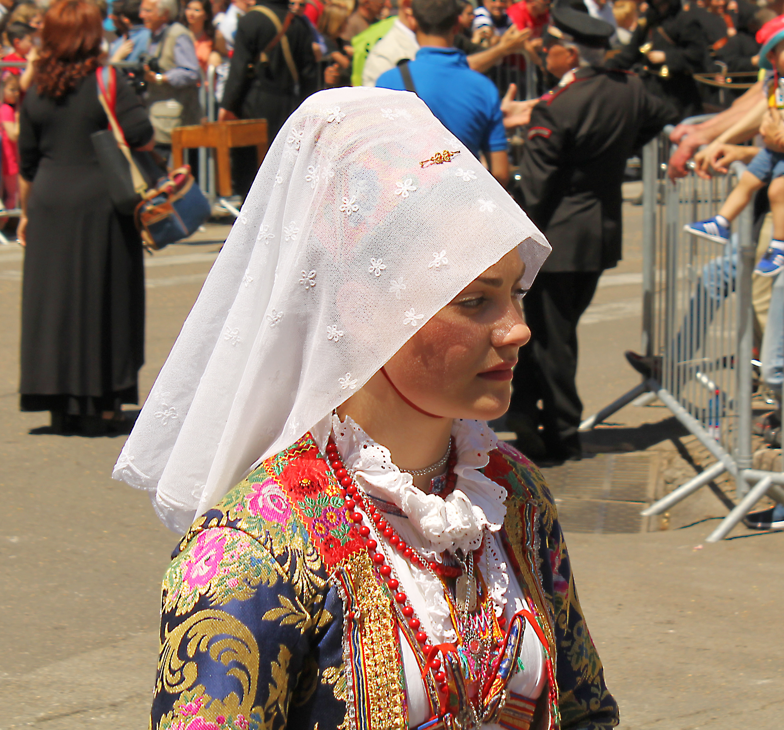 Sardinian Cavalcade Festival, 2016 Folk Costumes of Sardinia